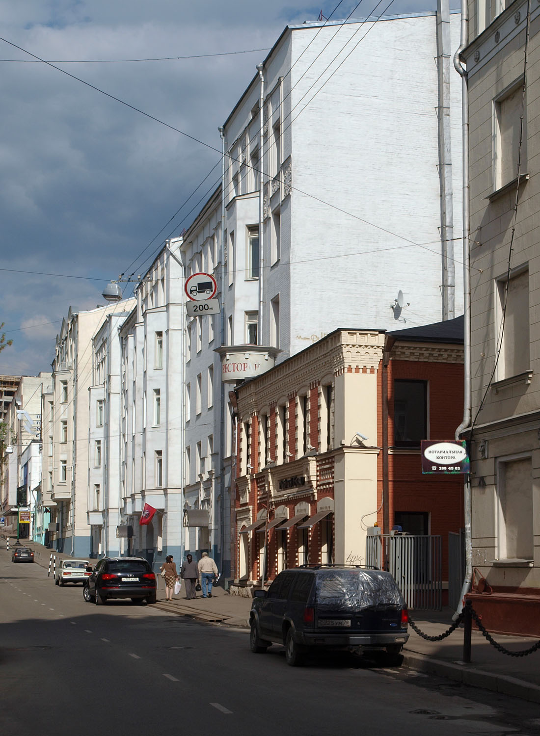 Moscow, Mamonovsky Lane 4